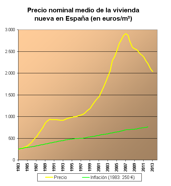 Spanish house prices 1984-2013.